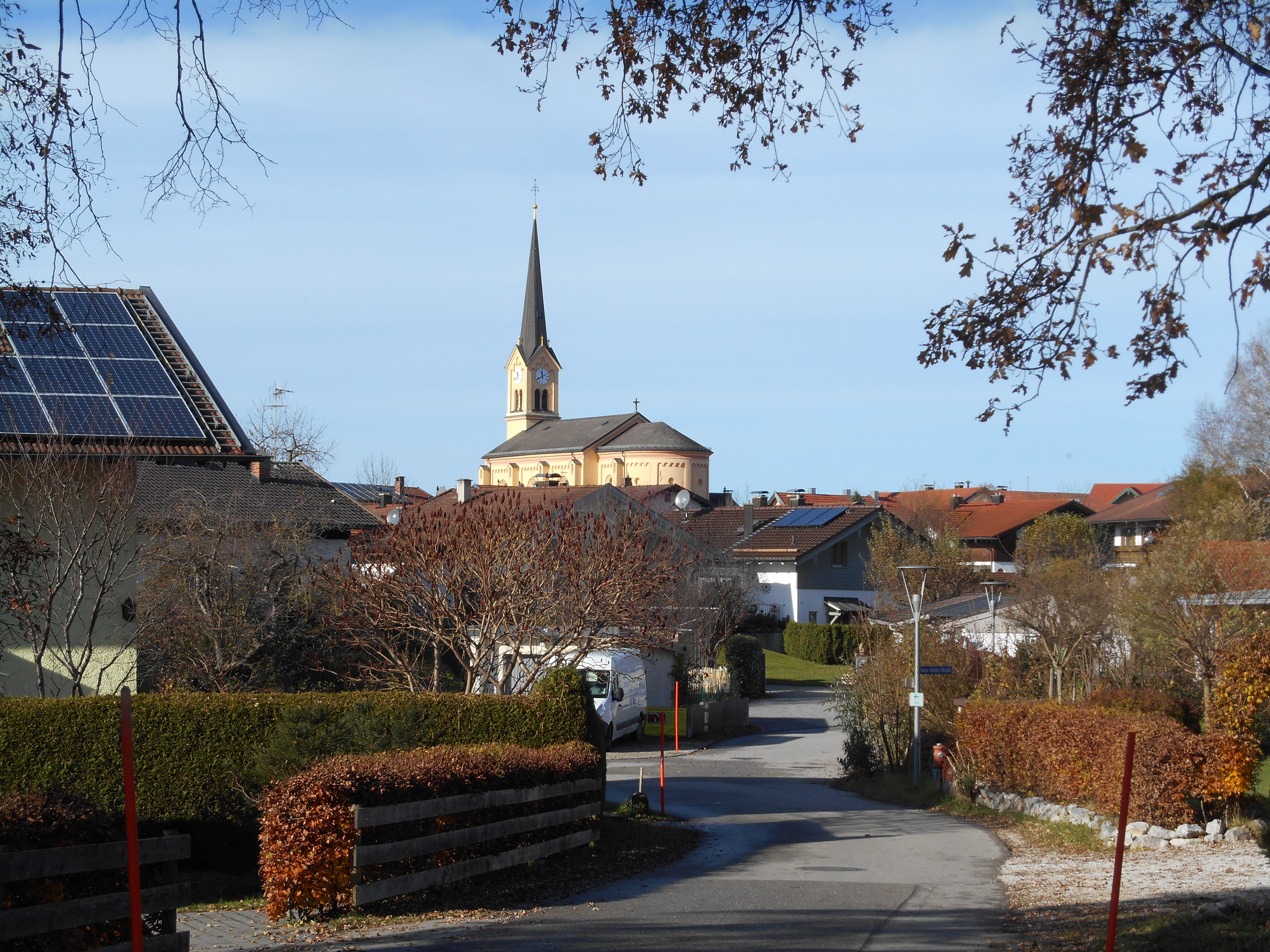 Aragonés: Chieming am Chiemsee Boarisch: Cheaming am Cheamsee